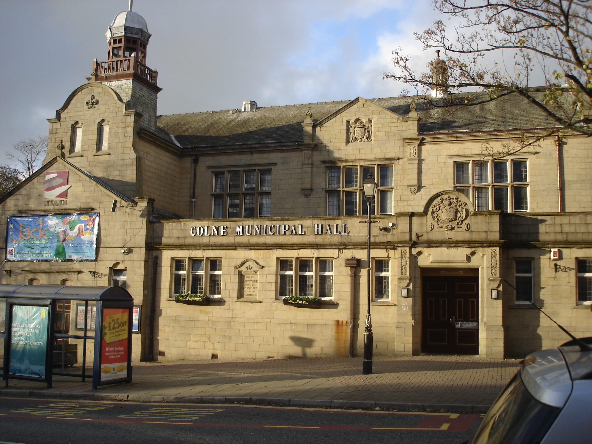 Municipal Hall, Colne, Lancashire, UK